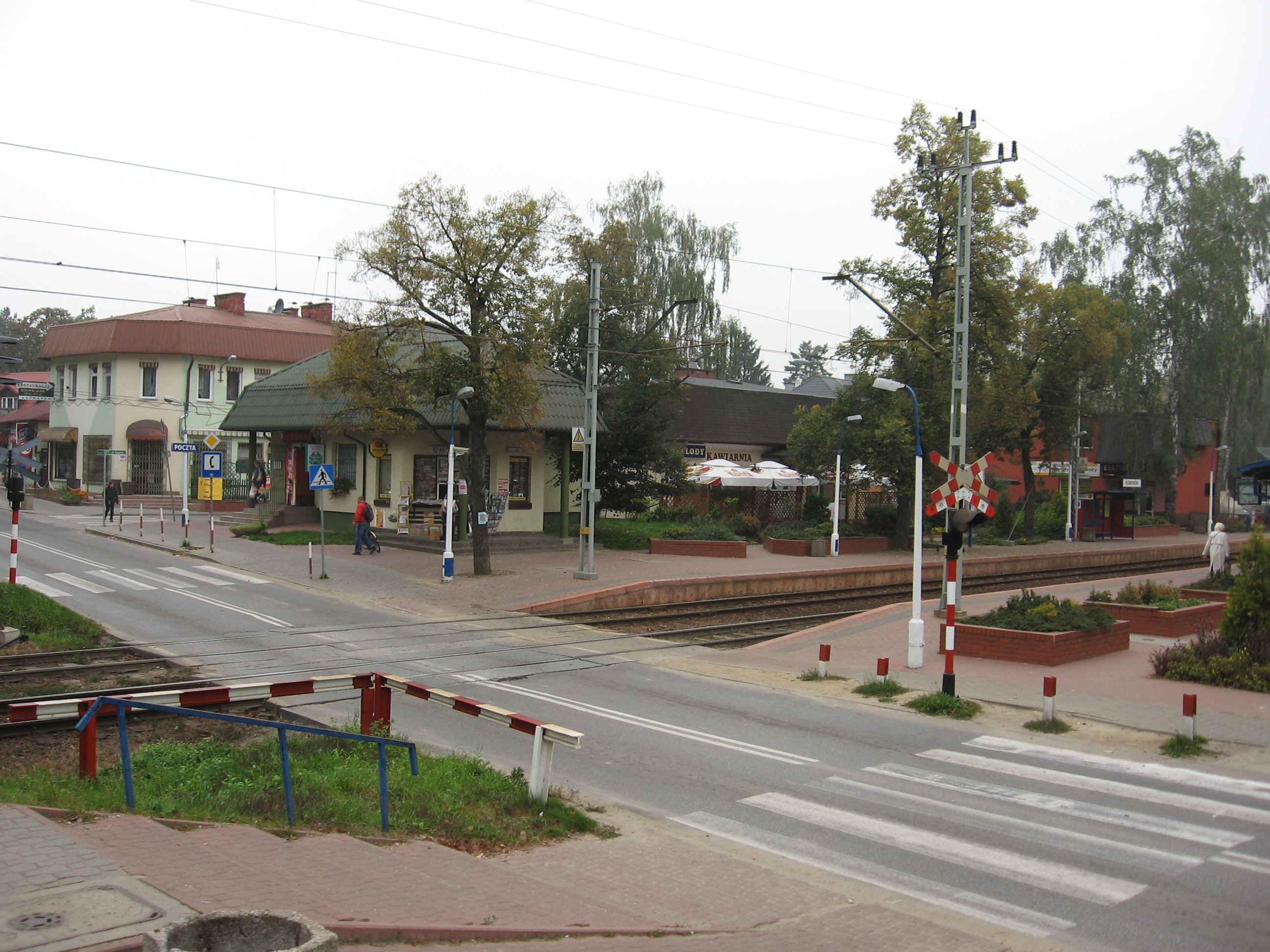 The center of Komorow, near the suburban train station.